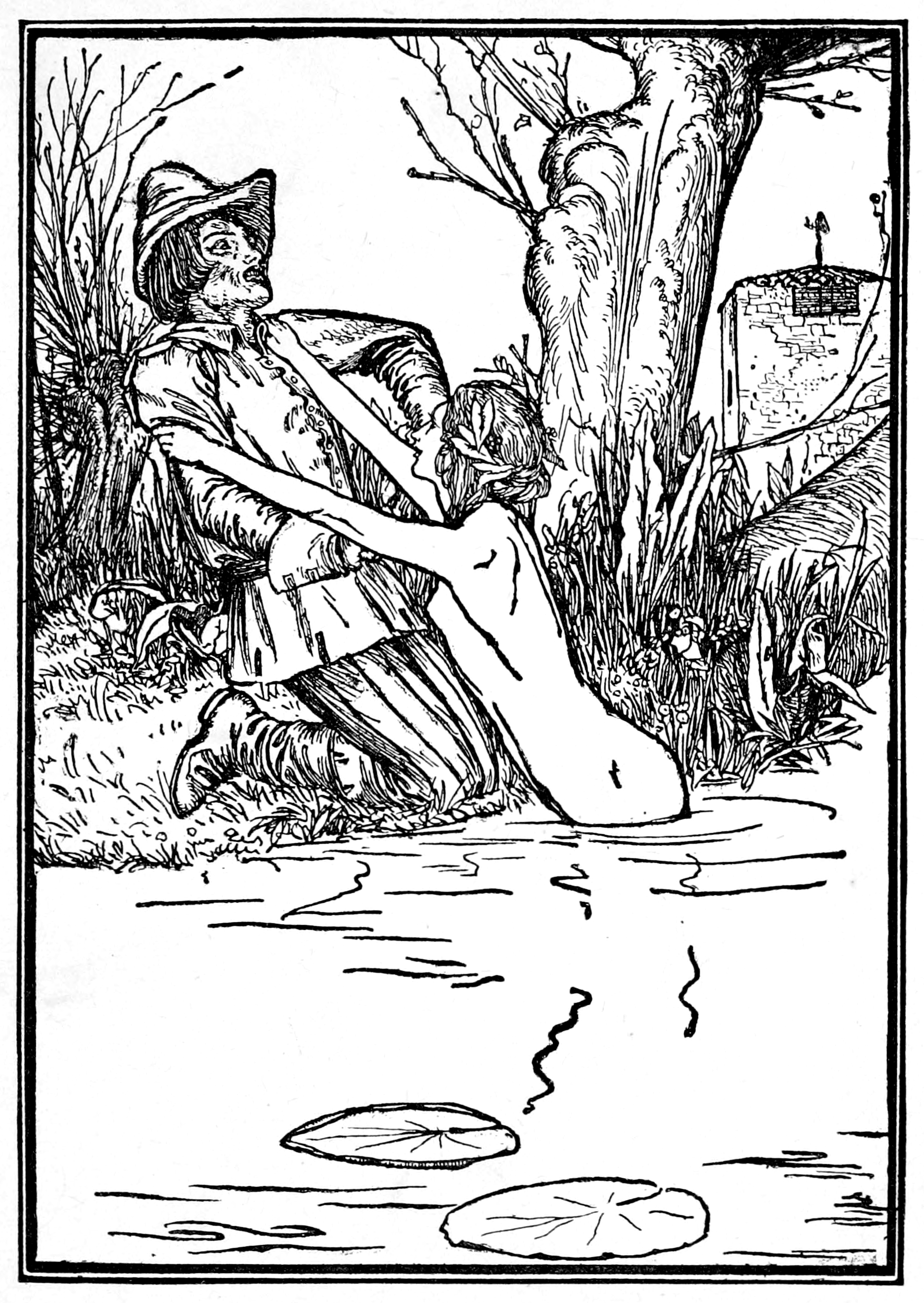 Illustration from a book of fairy tales